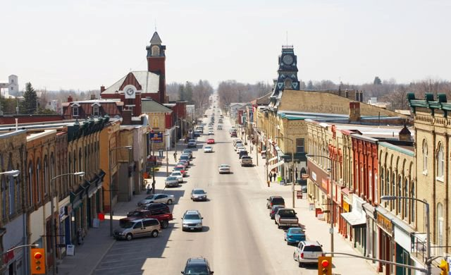 Looking south down the main street from the main intersection